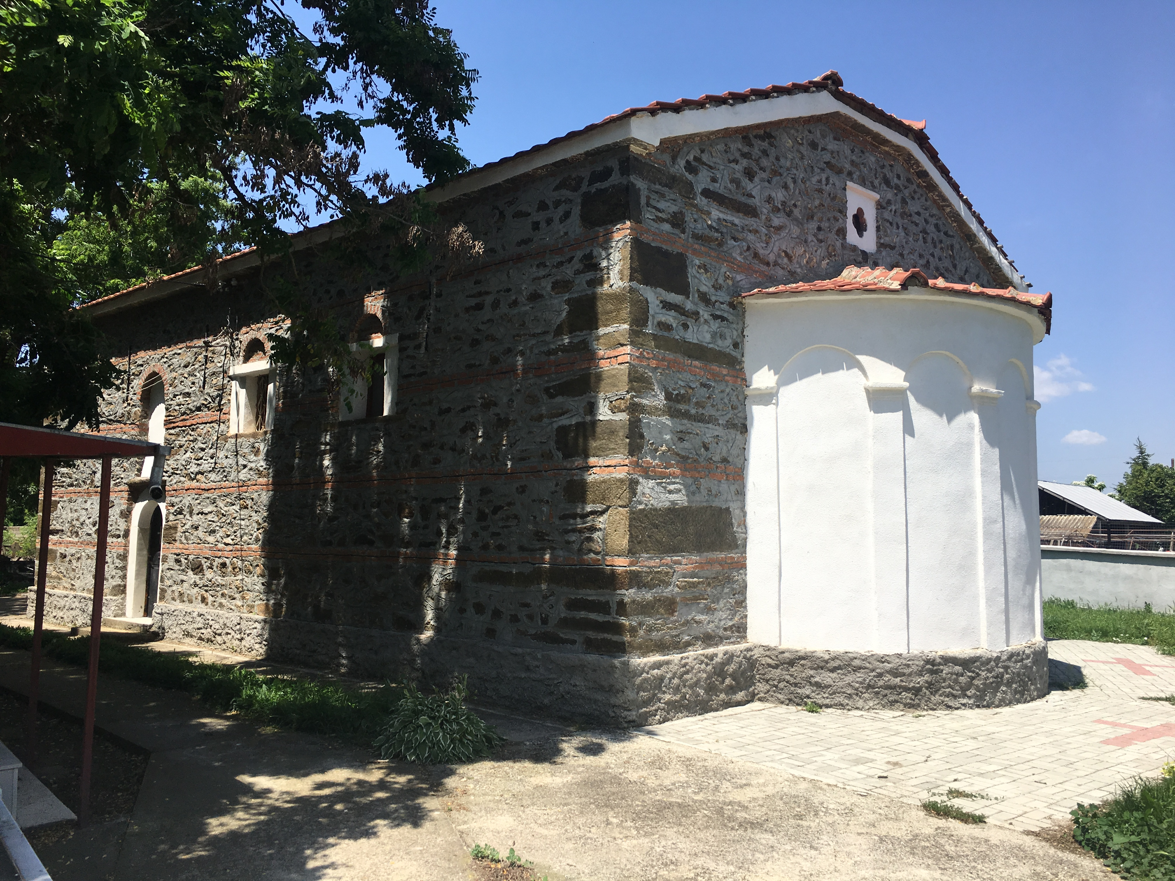 St. Peter Church in the village of Radobor